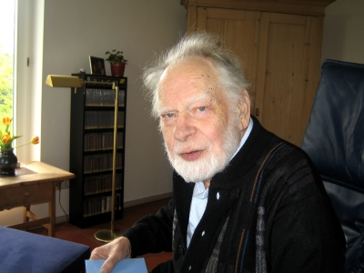 Mathematician Martin Barner on his 85. birthday in Königsfeld, 2006.